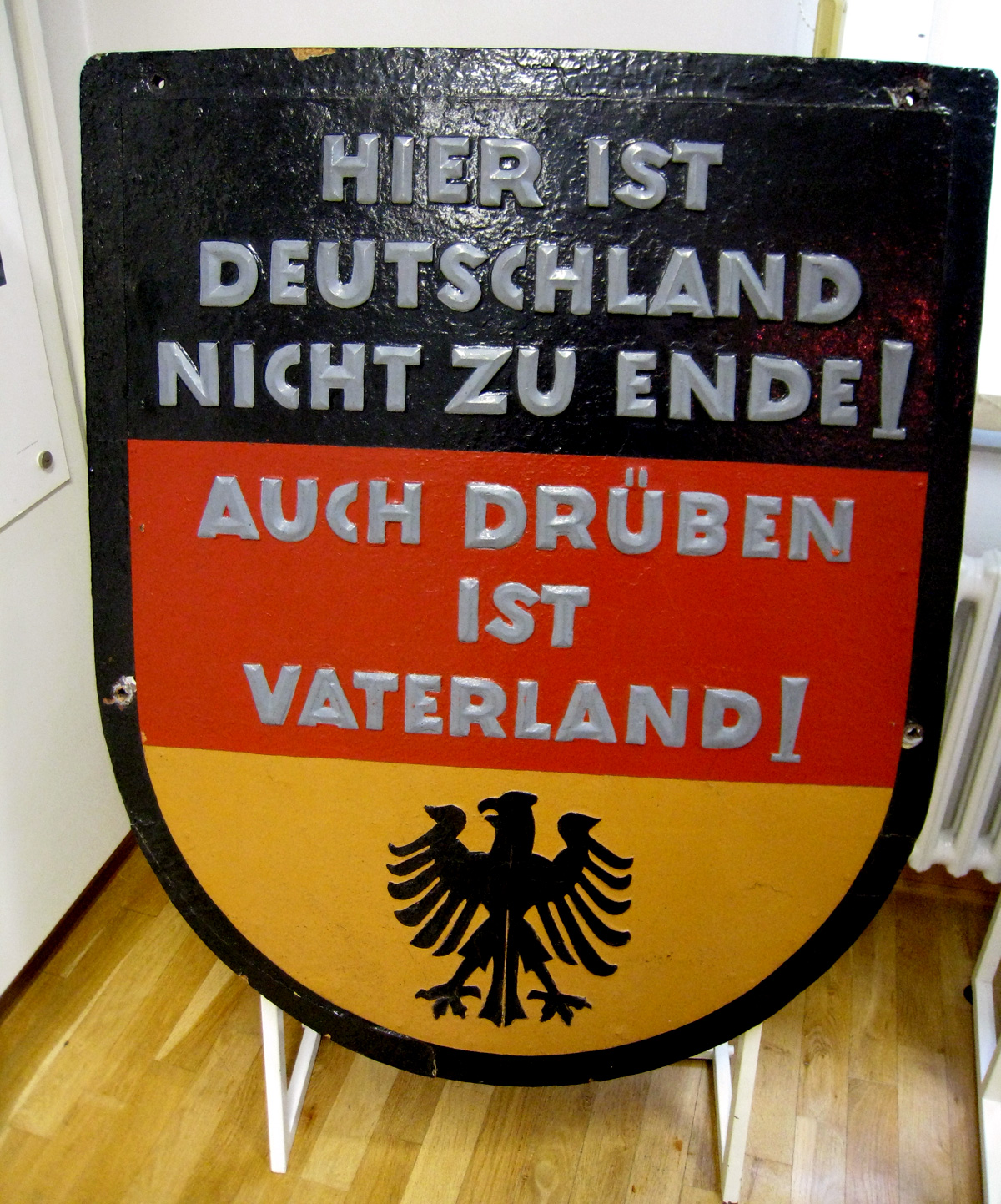 "Here Germany does not end! Over there is the Fatherland too!" Metal propaganda shield formally located on the inner German border near Helmstedt. Probably the work of the West Germany Ministry of Intra-German Relations. Displayed at the Zonengrenze-Museum, Helmstedt. textdeenHIER ISTDEUTSCHLANDNICHT ZU ENDE!AUCH DRÜBENISTVATERLAND![deutscher Adler]GERMANY DOESNOT END HERE!OVER THEREIS FATHERLAND TOO![German eagle]